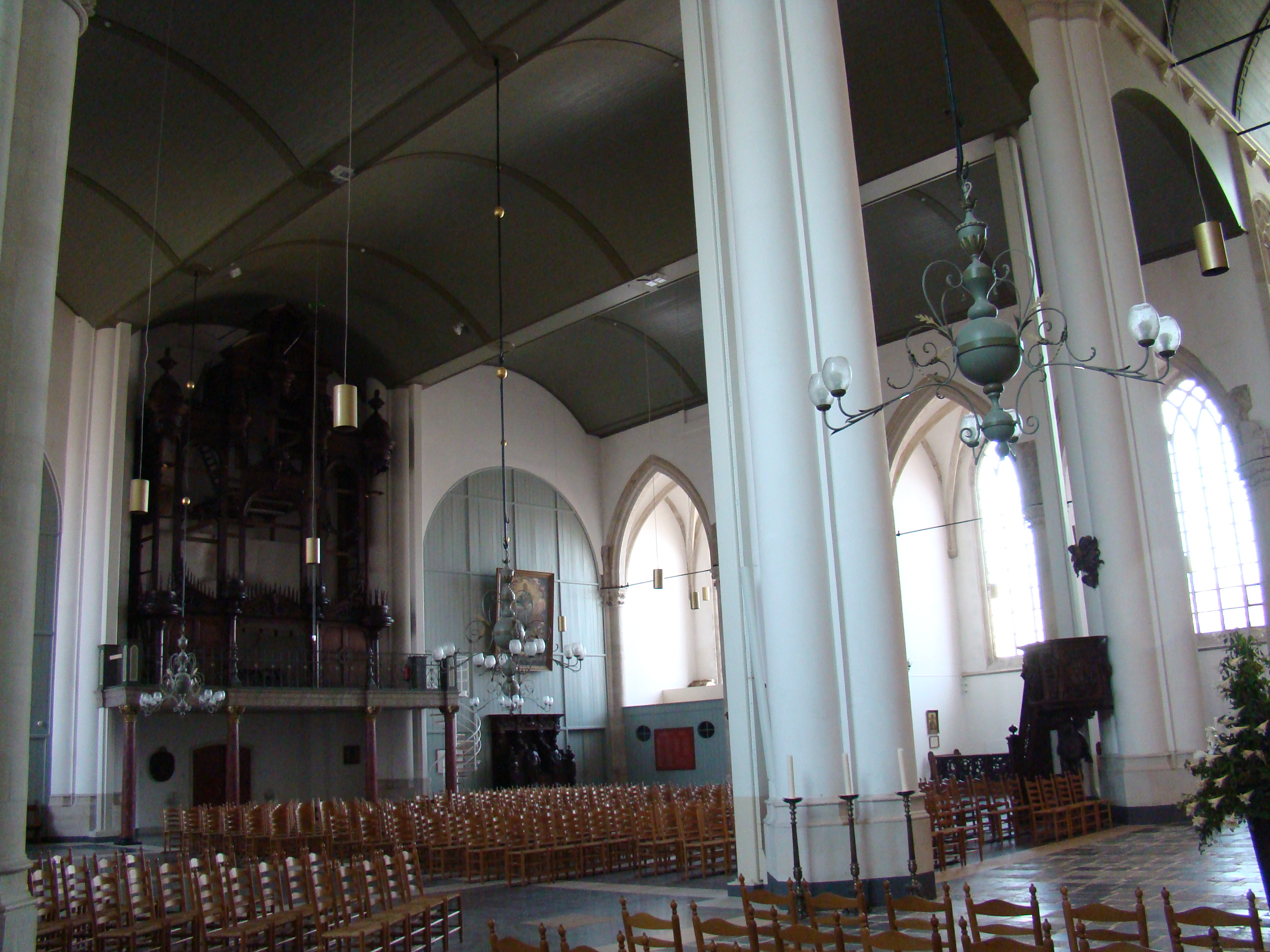 Impressions of Bergen op Zoom, Netherlands